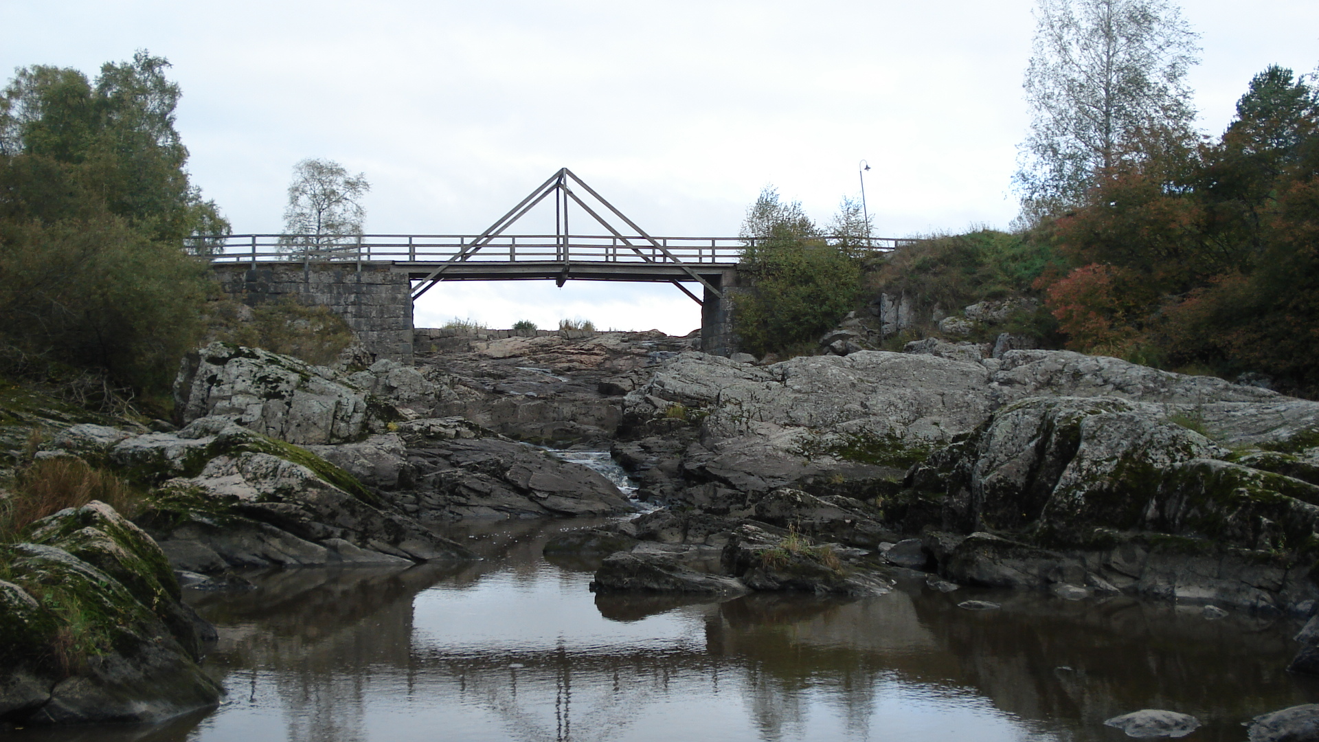 Nautelankoski is one of the most magnificent rapids of the Aura River. In a distance of half a kilometre, the drop is 17 metres. Is located Lieto, by the Aura River about 16 km from Turku, Finland.